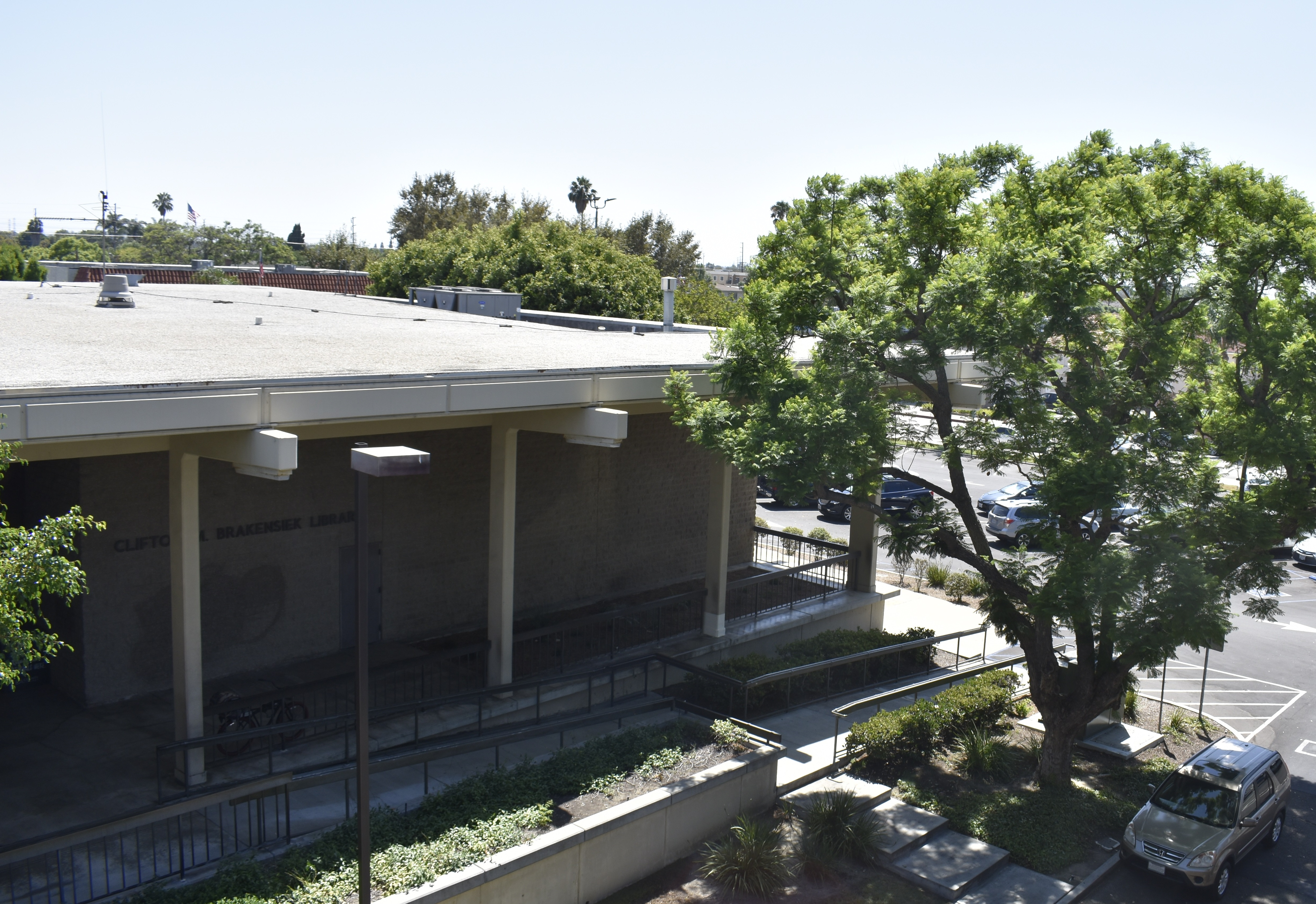 Clifton M. Brakensiek Library northern entrance, seen from the top of the neighboring parking structure on 10 August 2019